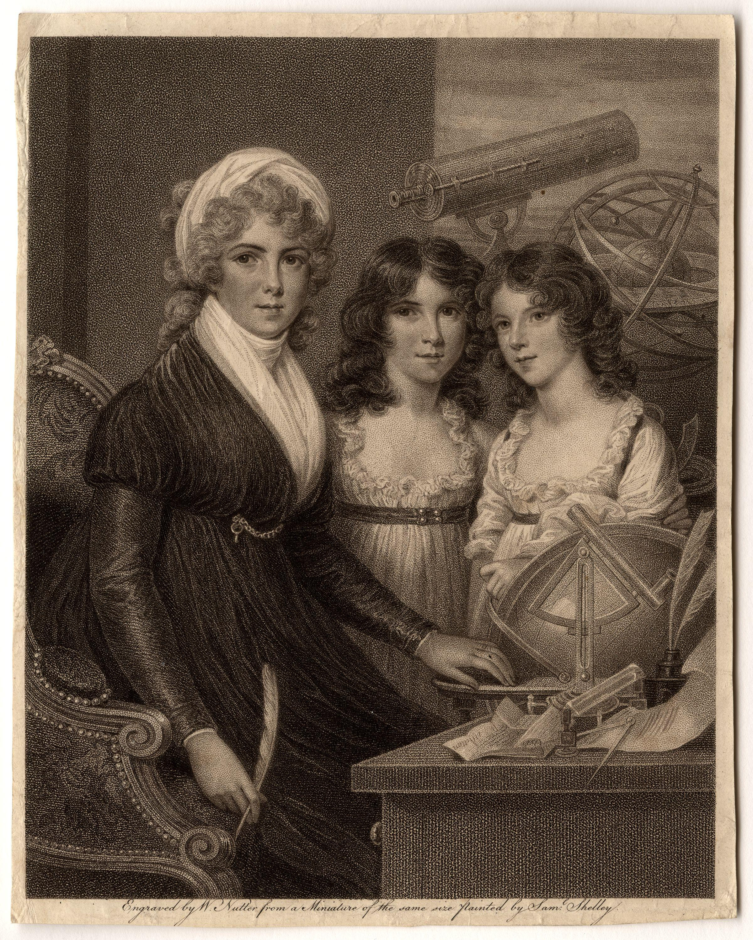 Portrait of Margaret Bryan with her daughters